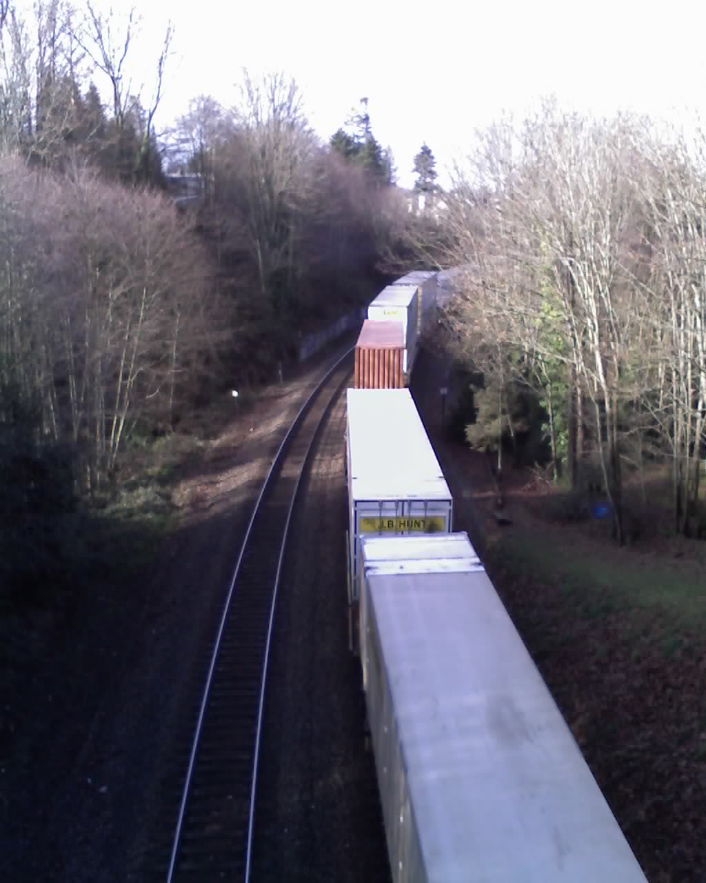 Photograph facing west, taken from the pedestrian bridge over the BNSF Railway tracks in Magnolia, Seattle, just south of Commodore Park. Kiwanis Ravine is to the left.